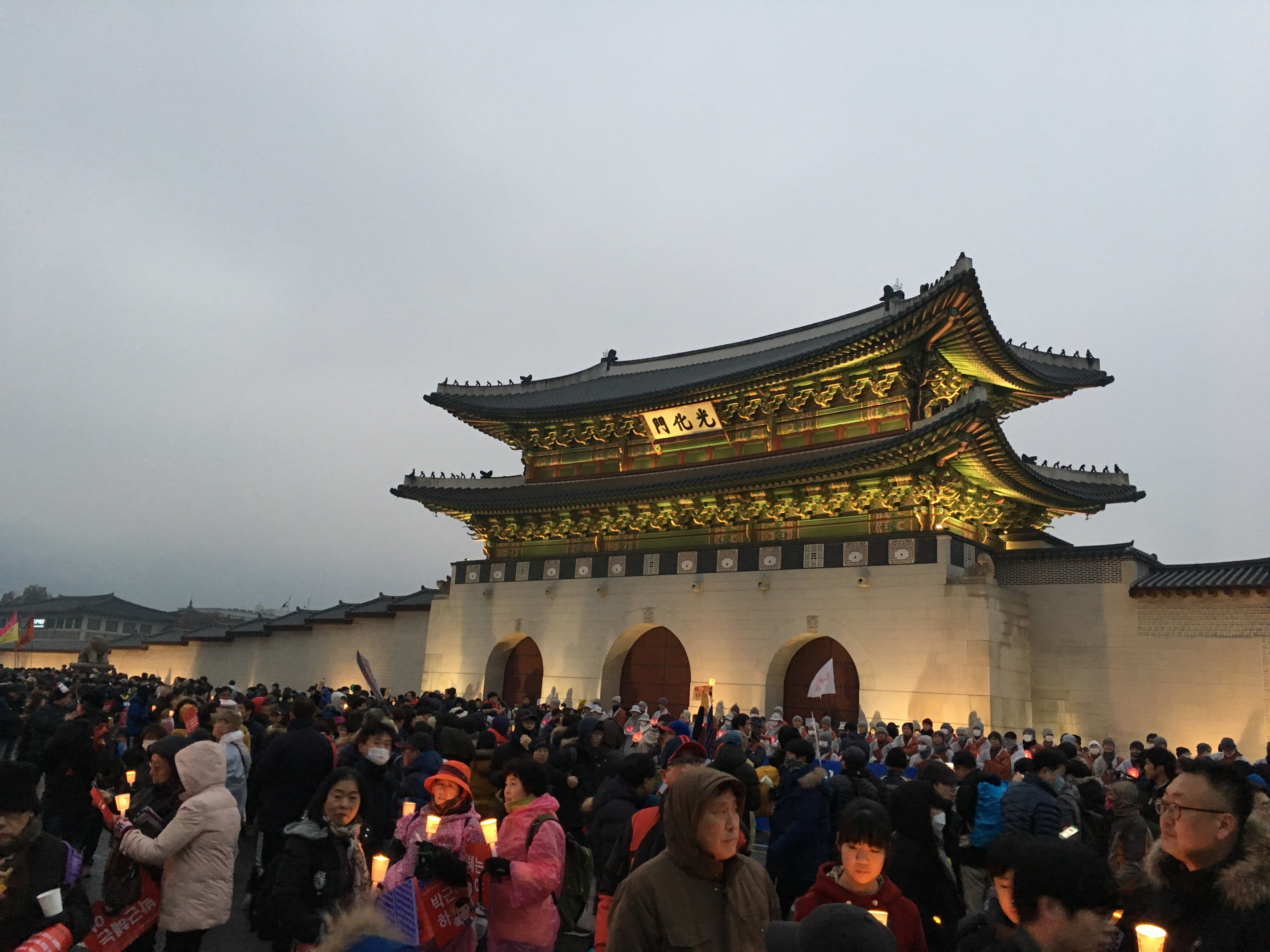 Protest at Gwanghwamun gate for resign of Park.